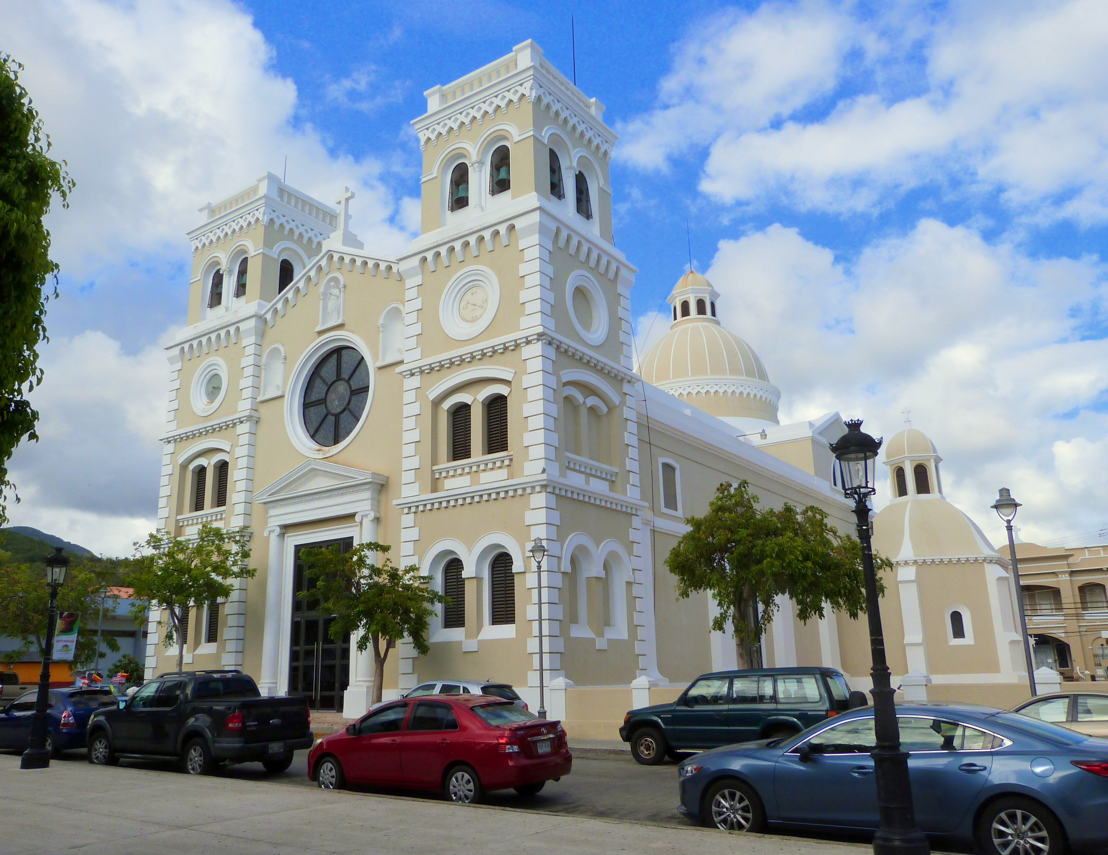 The historic Iglesia de San Antonio de Padua (built ca. 1874), located at Calle Ashford #5 in Guayama, Puerto Rico, is listed on the U.S. National Register of Historic Places.